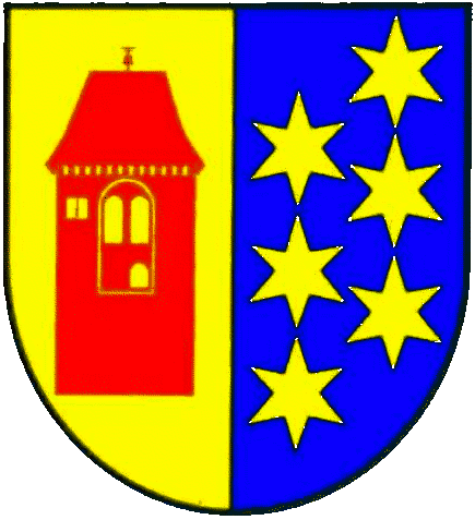 Coat of arms of the Amt (county) Lensahn in Schleswig-Holstein, Germany.